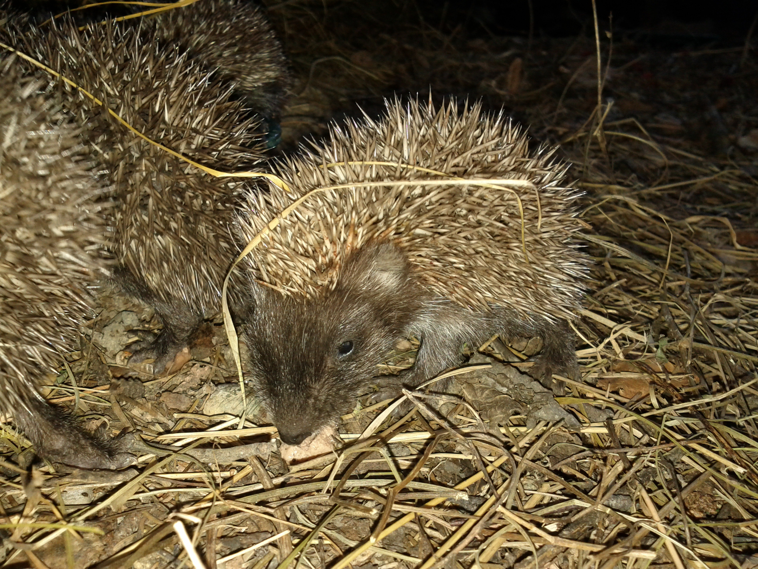 Erinaceus roumanicus, pups, Lower Austria